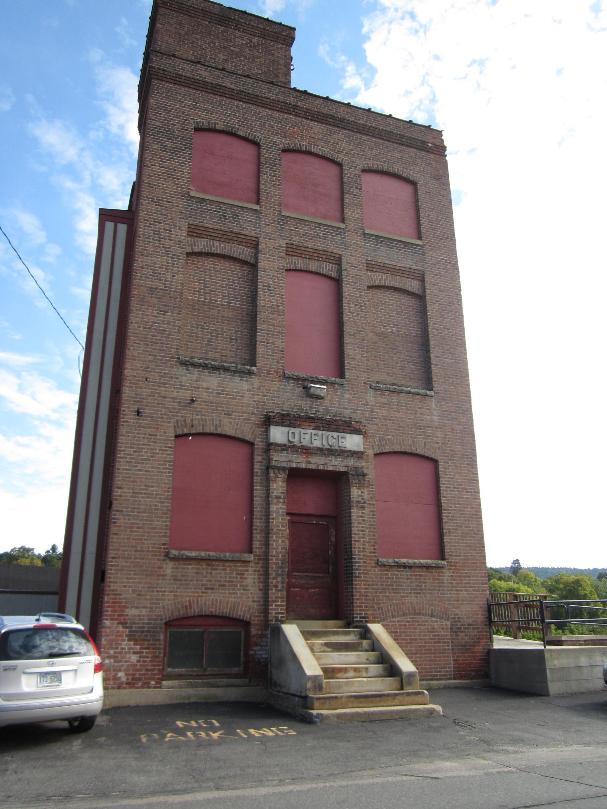 The (former) office building of the Sullivan Machine Company, on Main Street in Claremont, New Hampshire. The Sullivan Company premises are part of Claremont's Lower Village Historic District.